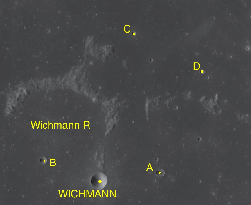 Part of the chart LAC-75 used for the presentation